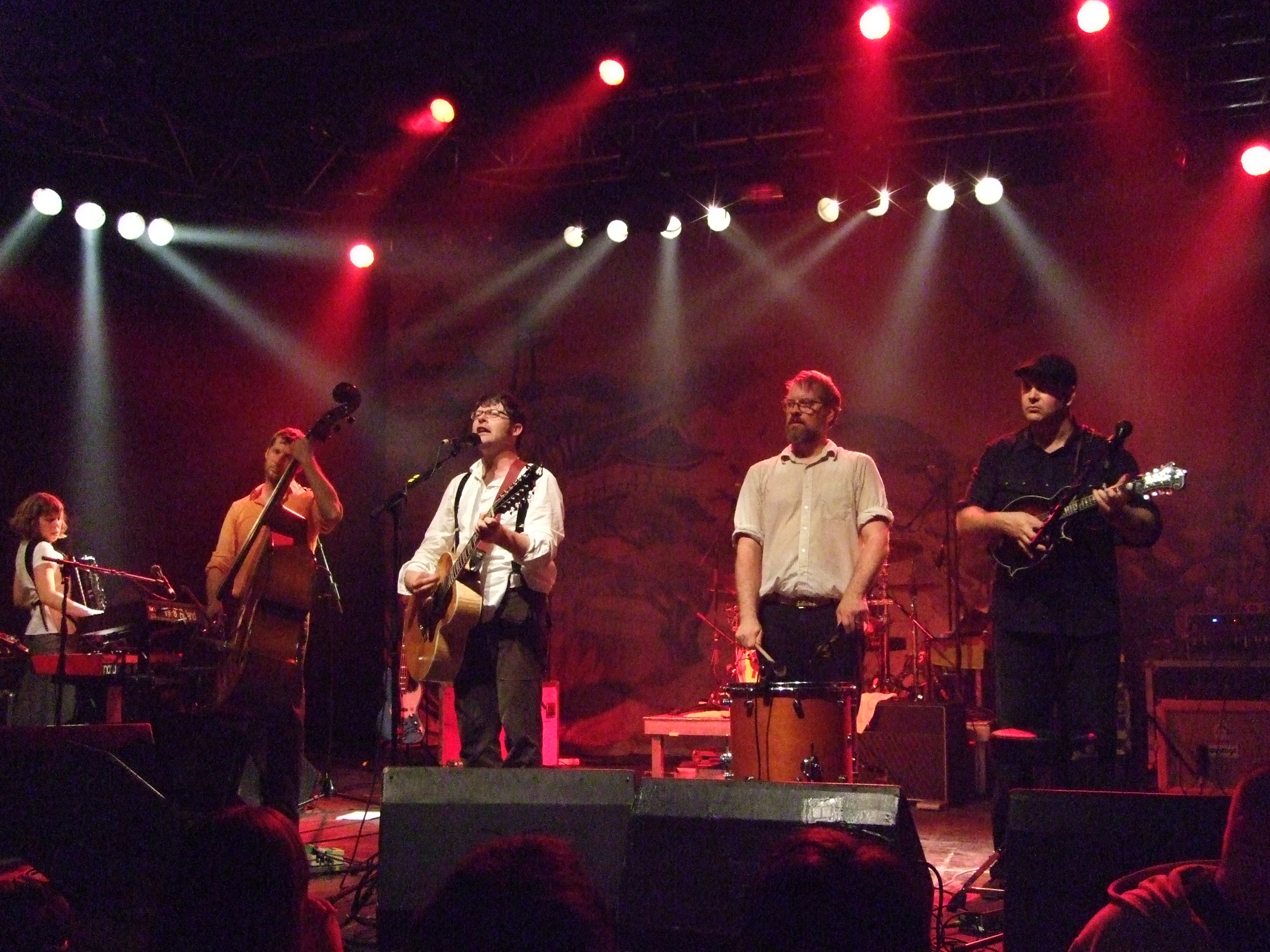 The Decemberists playing live at the Arena in Vienna on 2007-09-27.